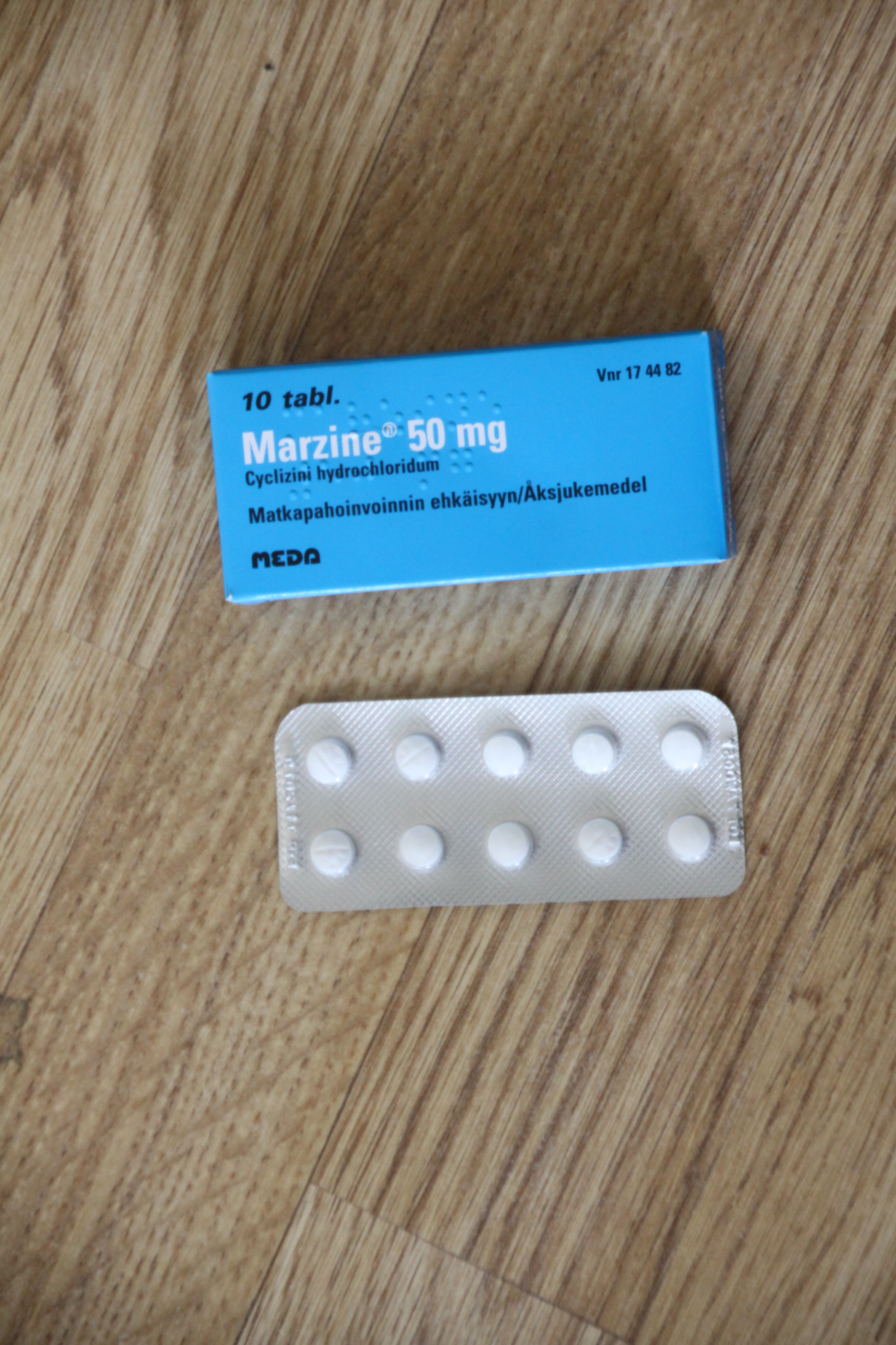 Marzine (cyclizine) -package